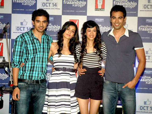 Cast of MFK